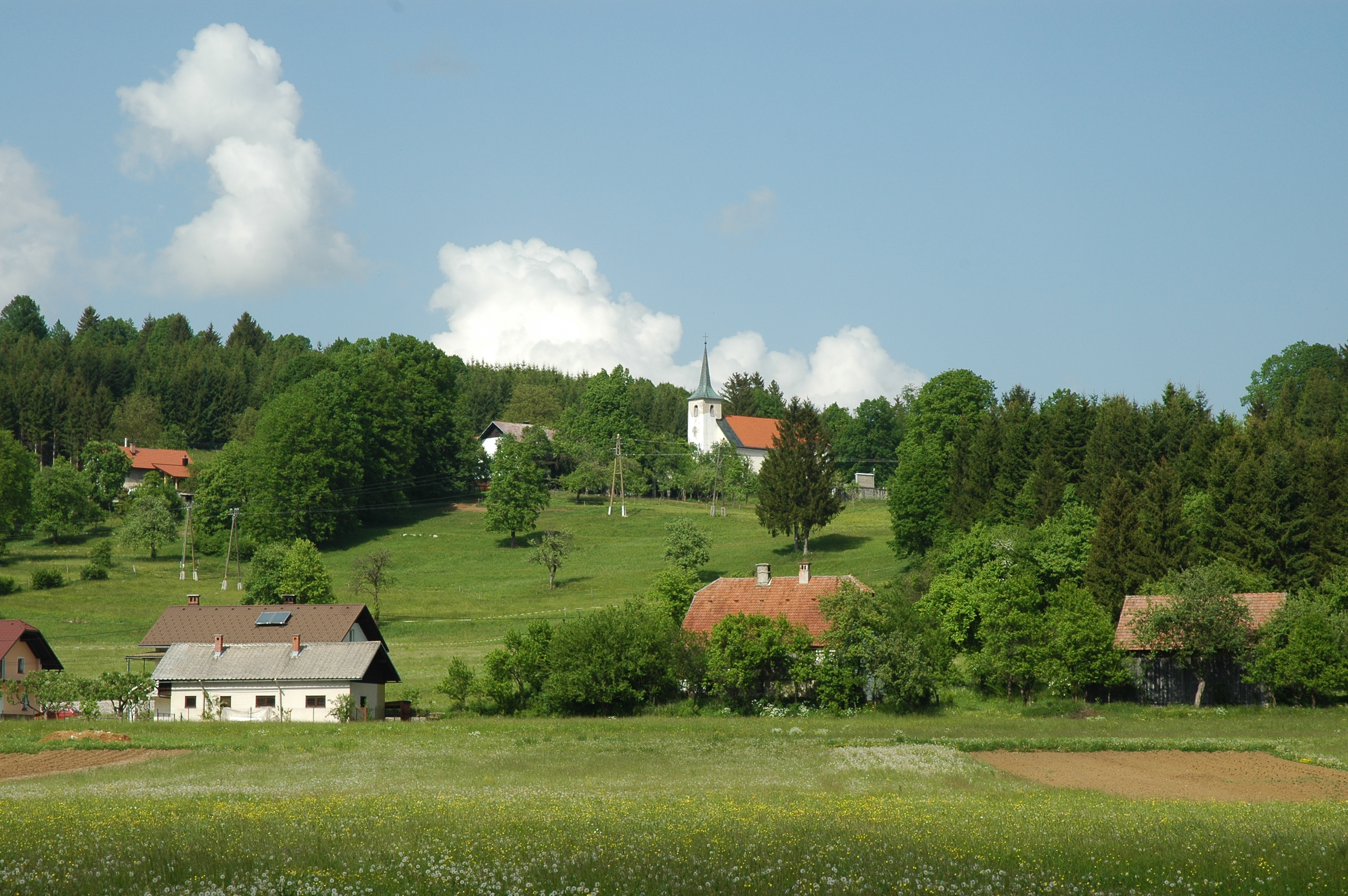 Podcerkev, Slovenia, with the St Martin church